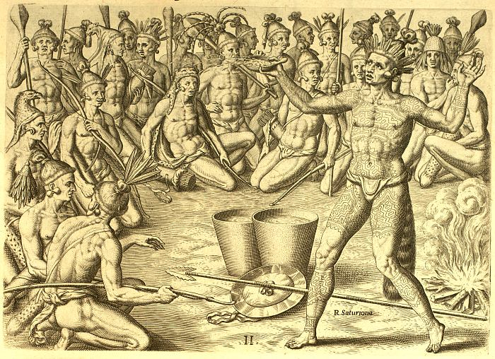 Chief Satouriona prepares his men from battle, from Plate XI of Jacques Le Moyne des Morgues' engraving of Fort Caroline